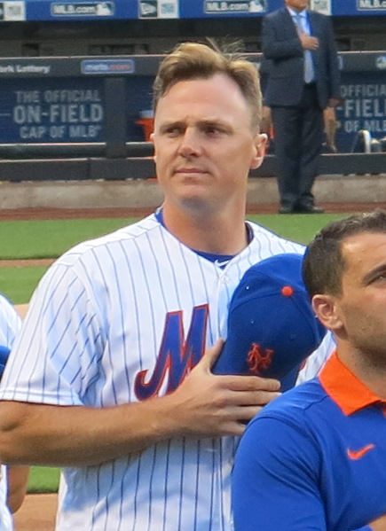 Jay Bruce of the New York Mets, August 2, 2016.